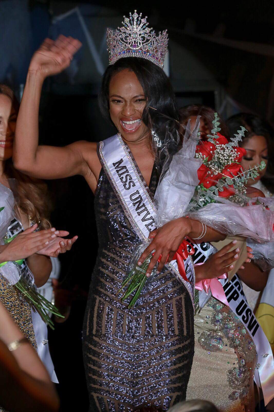 Aniska Tonge is crowned Miss Universe U.S Virgin Islands on August 11, 2018 in St. Thomas